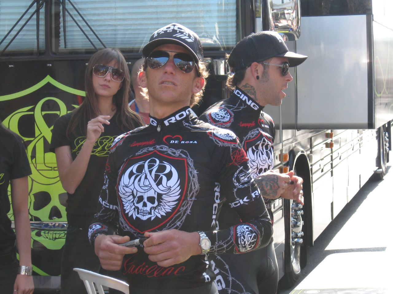 Tyler Hamilton in team kit at the autograph table. 2008 Amgen Tour of California - Prologue - Palo Alto California